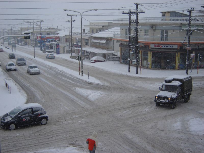 Veria in January 2006.